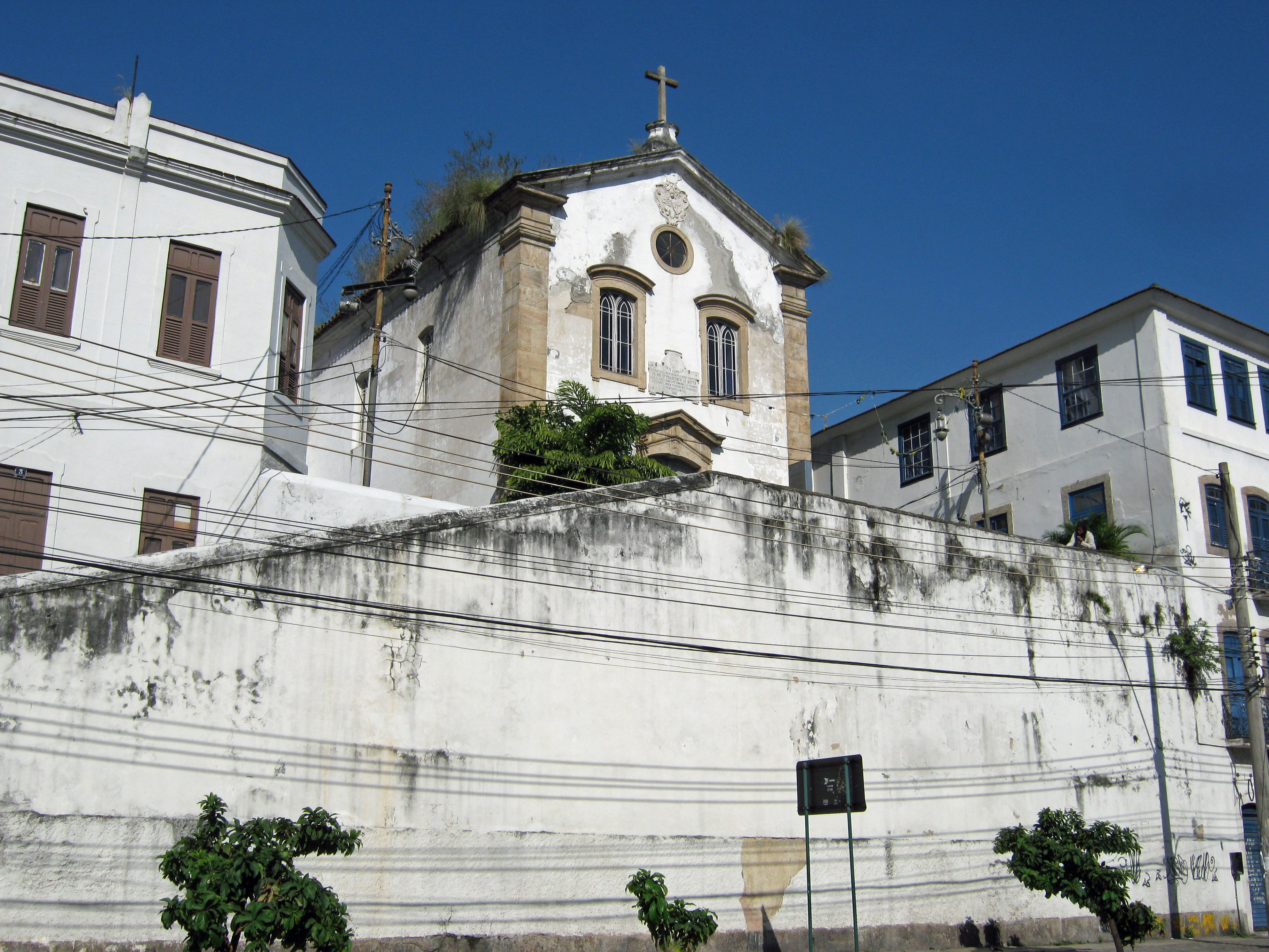 São Francisco da Prainha Church - Largo São Francisco da Prainha, Saúde, Rio de Janeiro, RJ, Brazil